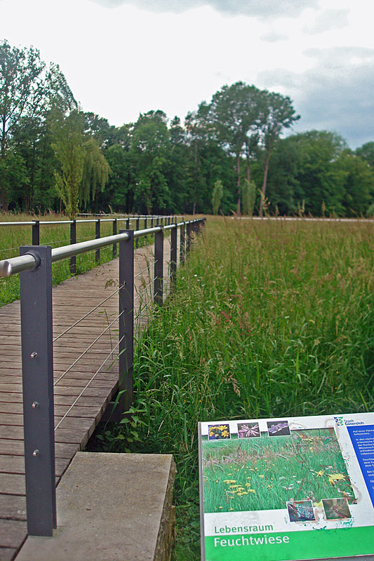 Wet meadow